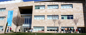 Foto de la fachada de la Escuela Politécnica de Cuenca